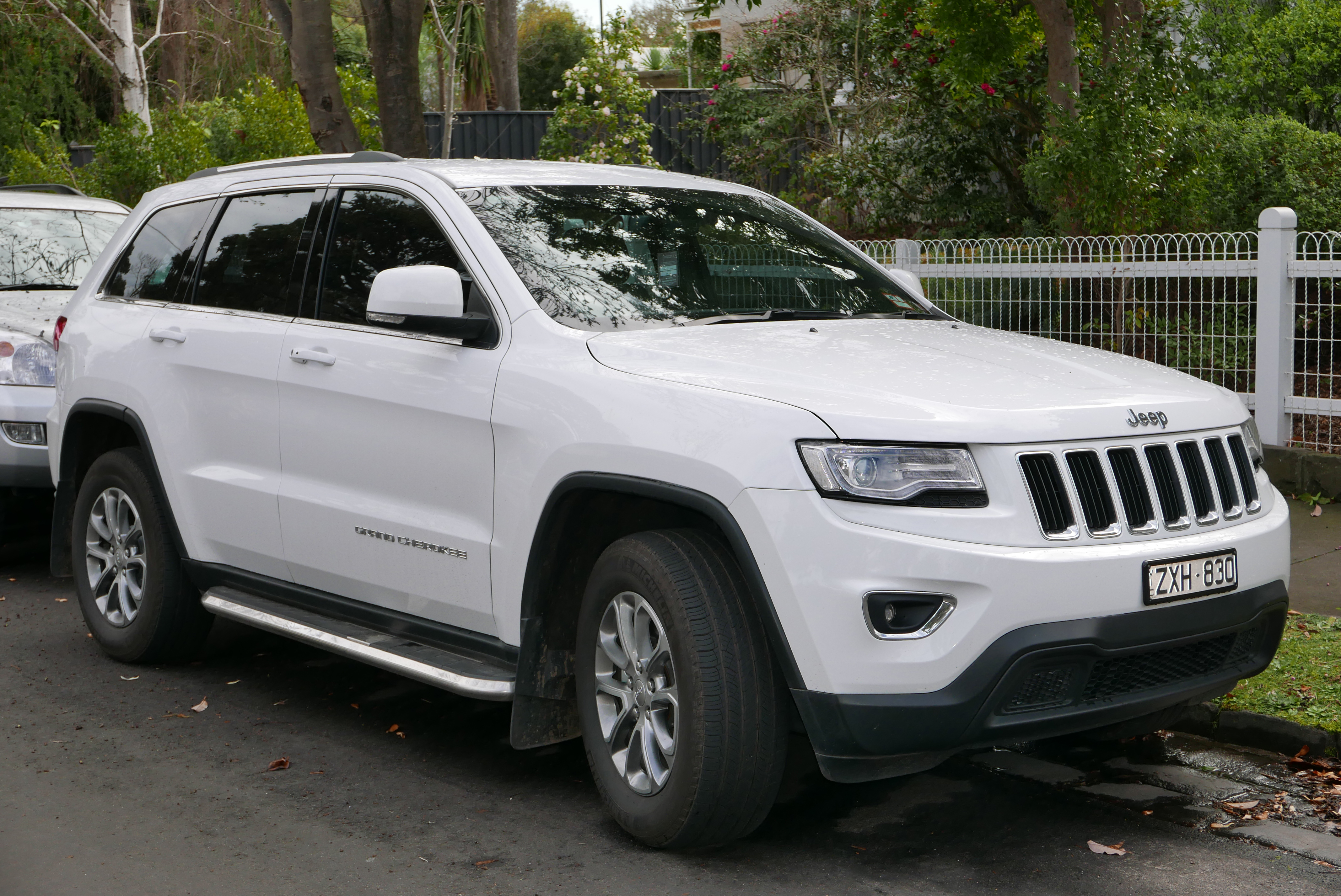 2013 Jeep Grand Cherokee (WK2 MY14) Laredo CRD 4WD wagon. Photographed in Hawthorn, Victoria, Australia. Vehicle registration enquiry results Jurisdiction Victoria Registration ZXH830 Chassis code 1C4RJFEM6EC165656 Engine code EC165656 Compliance date 2013-07 Year of manufacture 2013